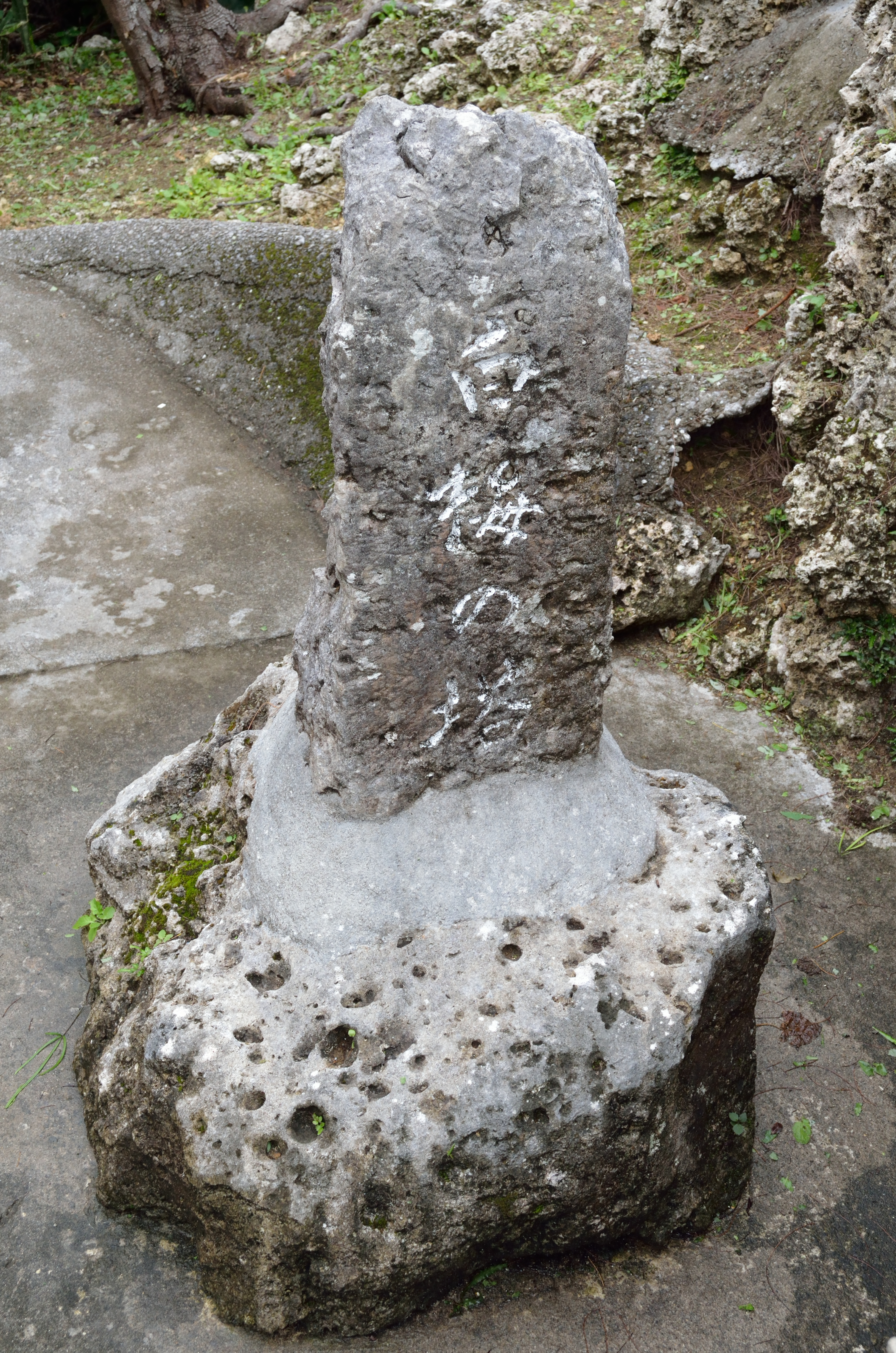 The Cenotaph of Shiraume (white plum), a war memorial in Okinawa, Japan, for schoolgirl victims in the Battle of Okinawa.